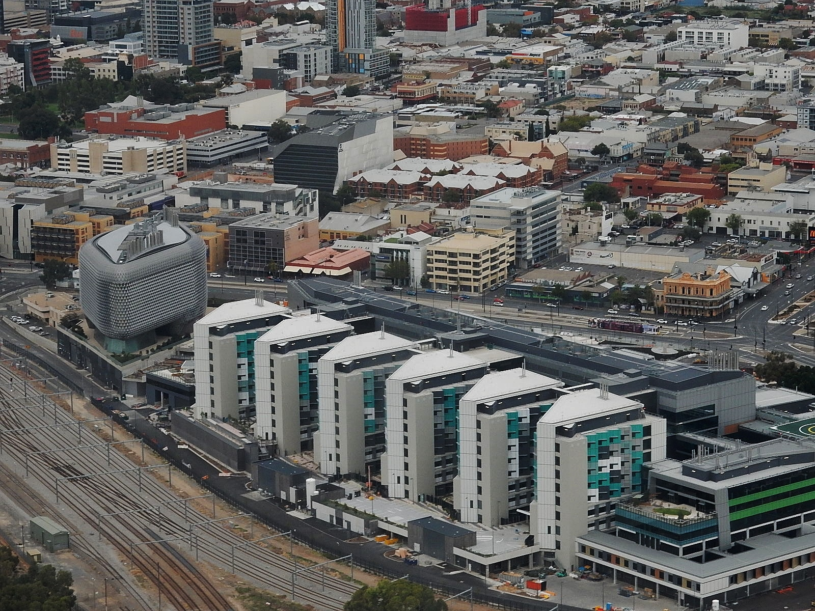 Adelaide's New Medical Precinct